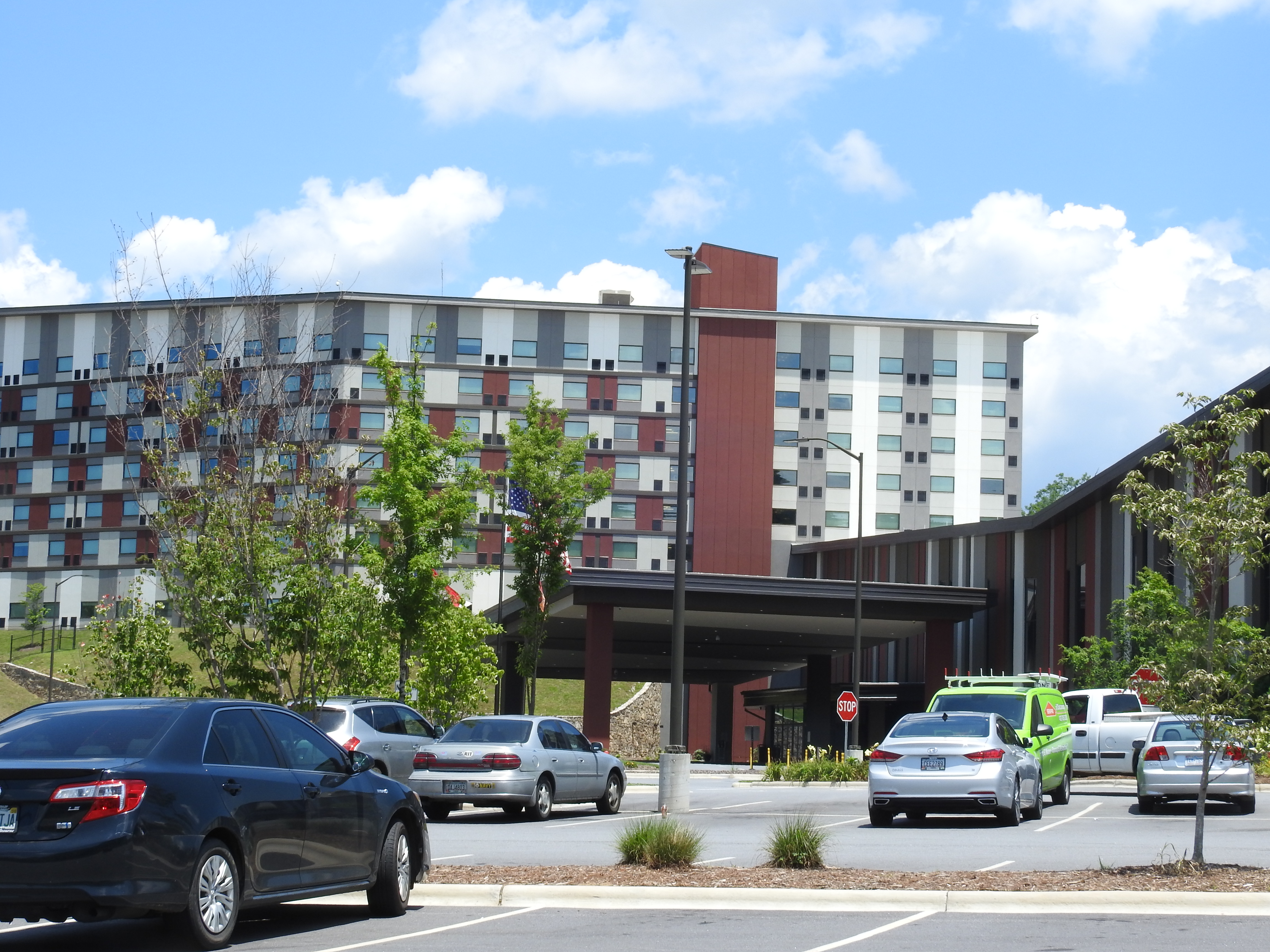 Harrah's Cherokee Valley River Casino in Murphy, North Carolina, seen from parking lot.